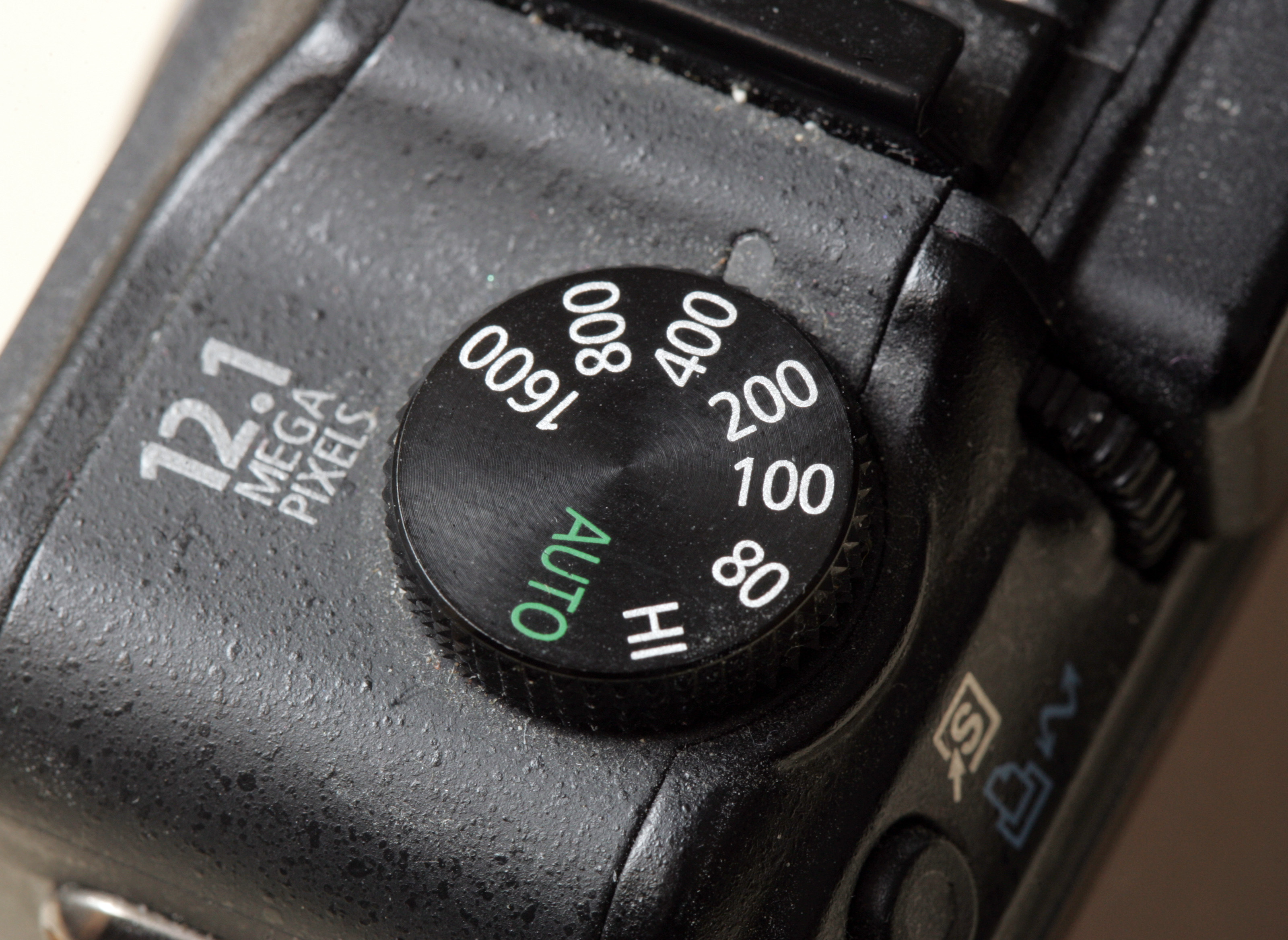 Canon PowerShot G9 ISO speed dial.